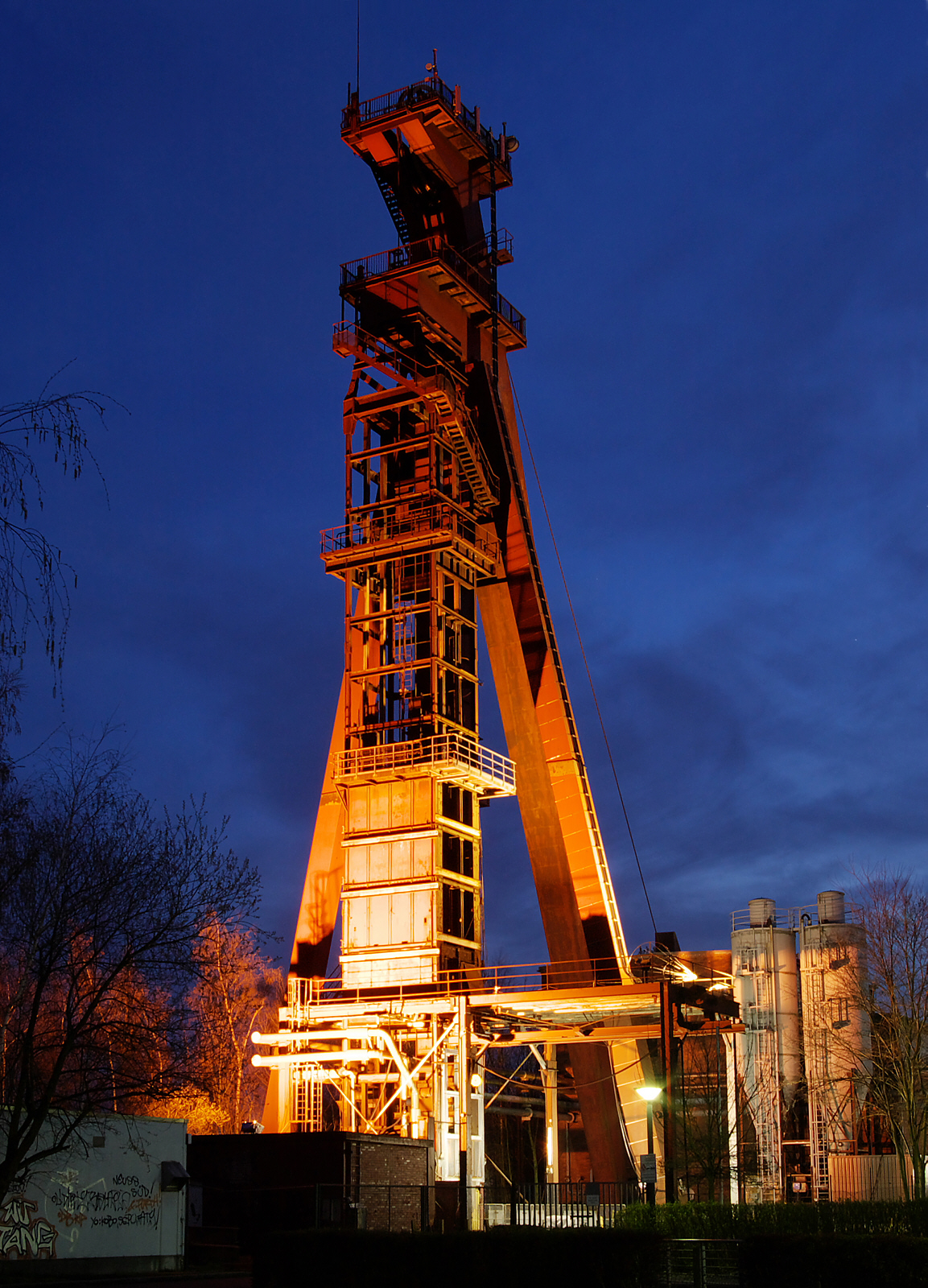 "Monopol", closed coal mine in Kamen, Germany near Dortmund, night shot. There were two shafts named "Grillo 1" and "Grillo 2". Only one has been kept for museal purposes.